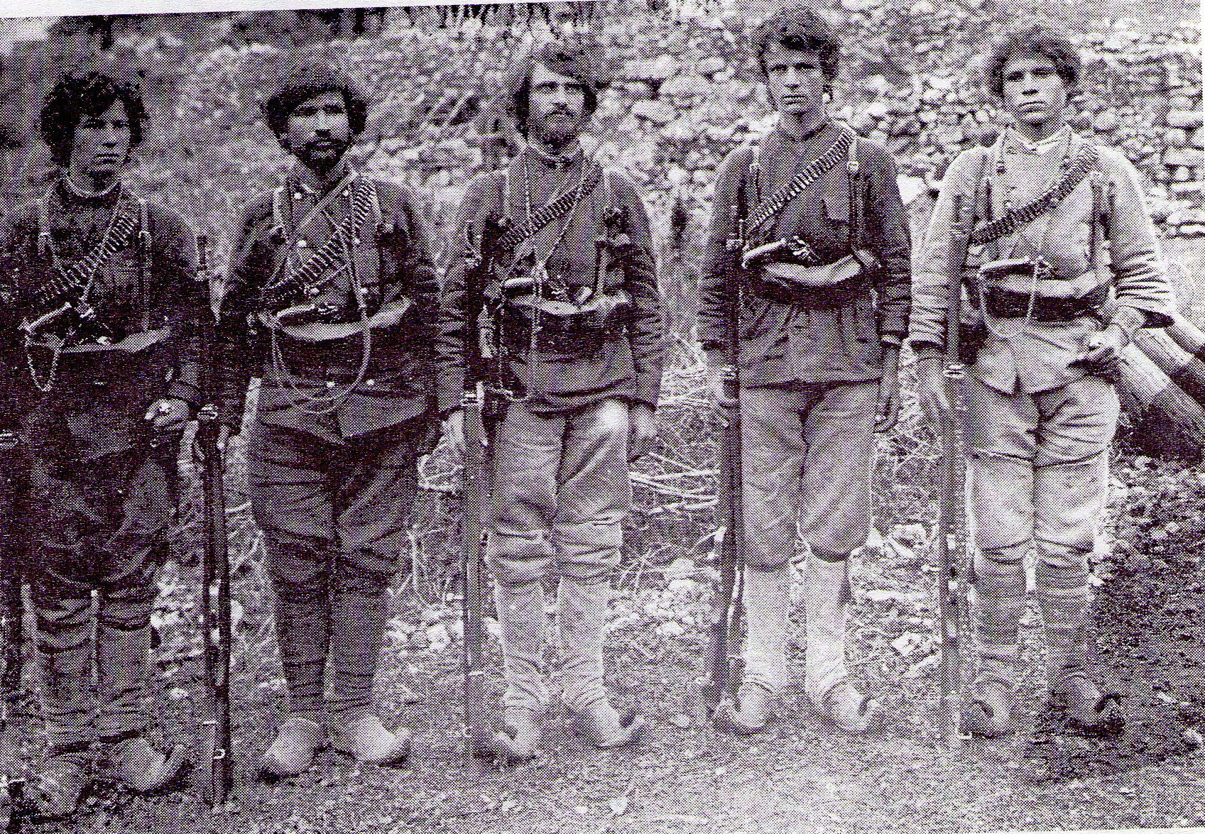 Cheta of Petar Hristov Germancheto from IMARO, bulgarian revolutionary